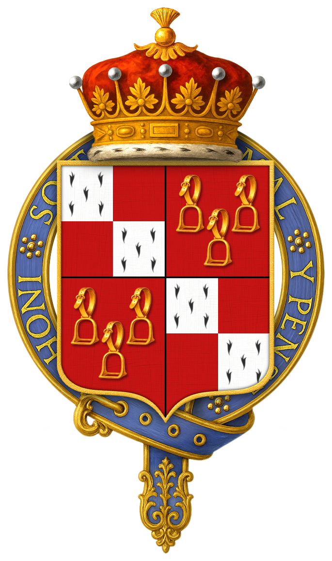 Garter-encircled shield of arms of Edwyn Scudamore-Stanhope, 10th Earl of Chesterfield, KG, as displayed on his Order of the Garter stall plate in St. George's Chapel.